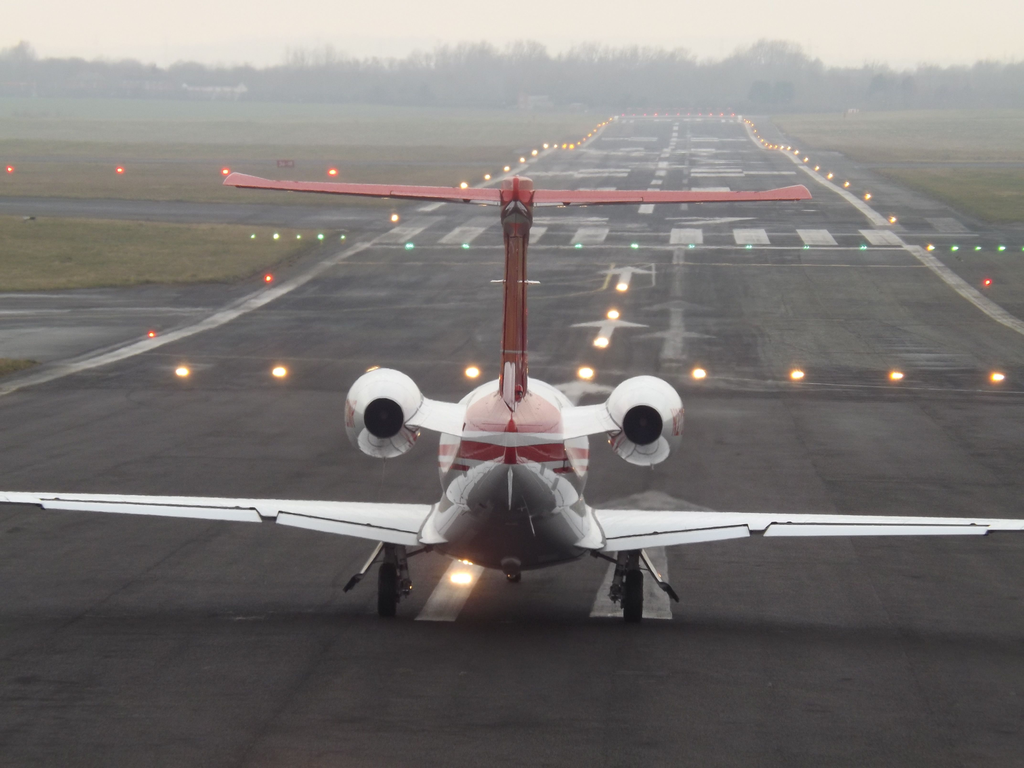 At Gloucestershire Airport.